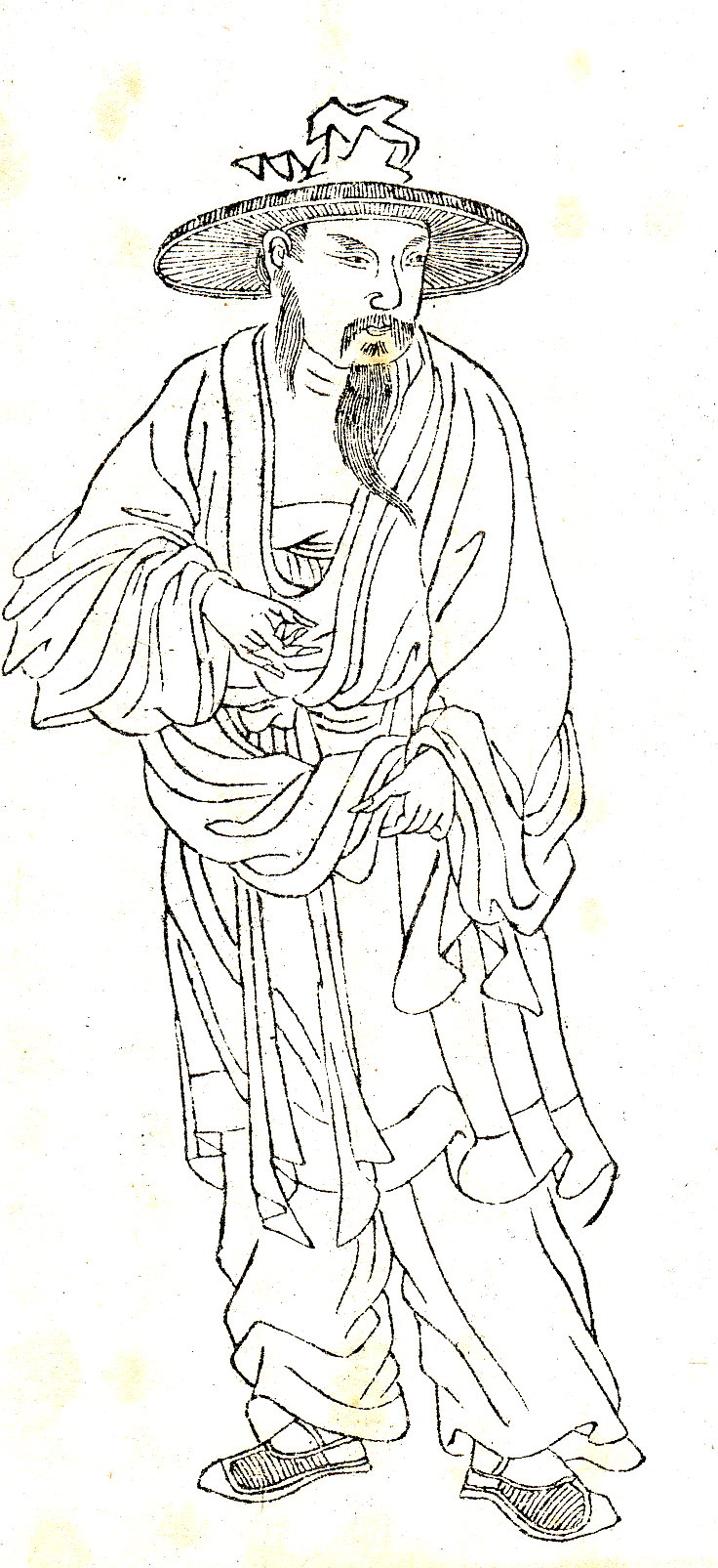 Pang De Kung(龐徳公) was a Chinese hermit in Eastern Han Dynasty.